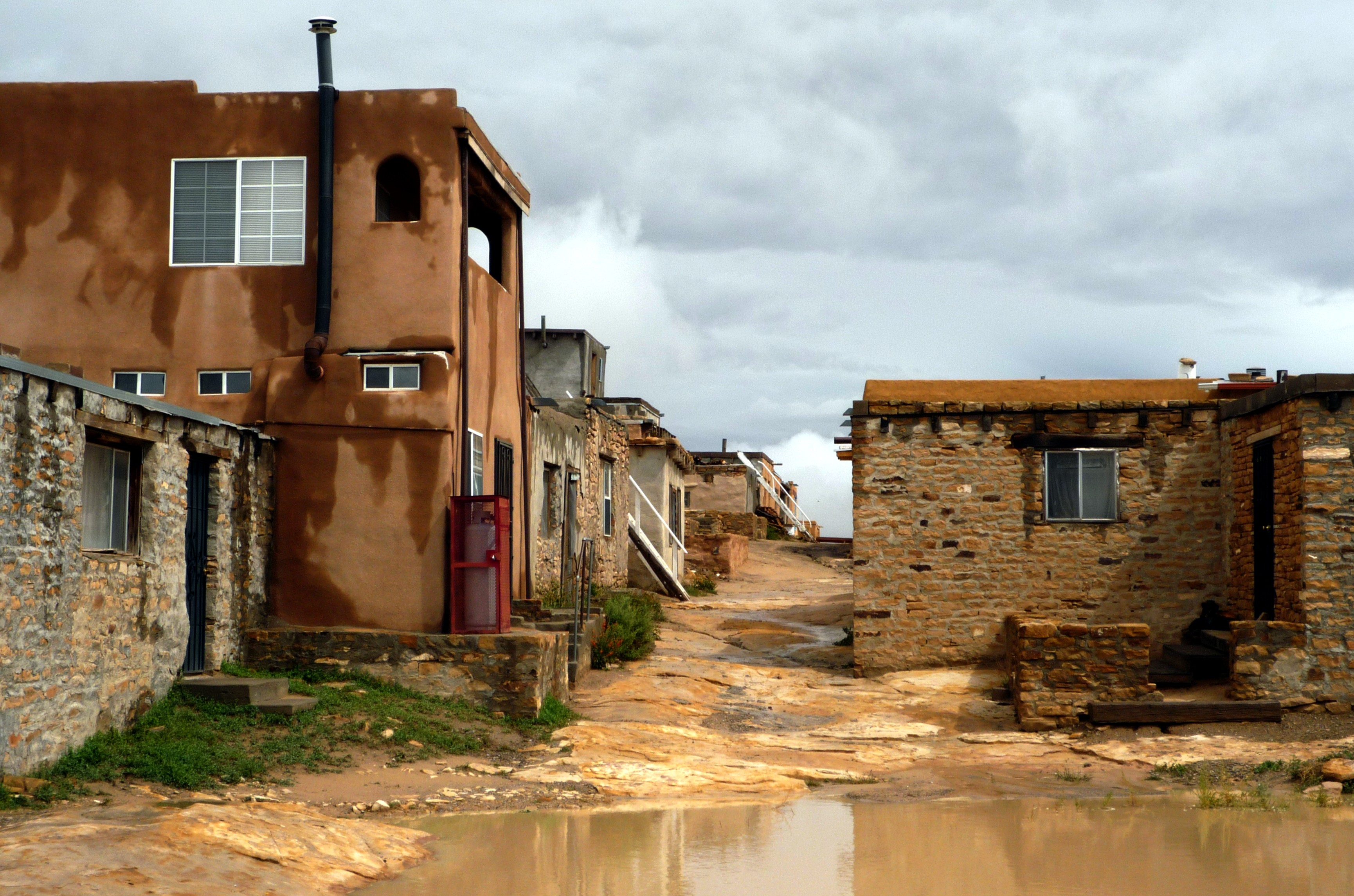 Acoma Indian Reservation, NM.